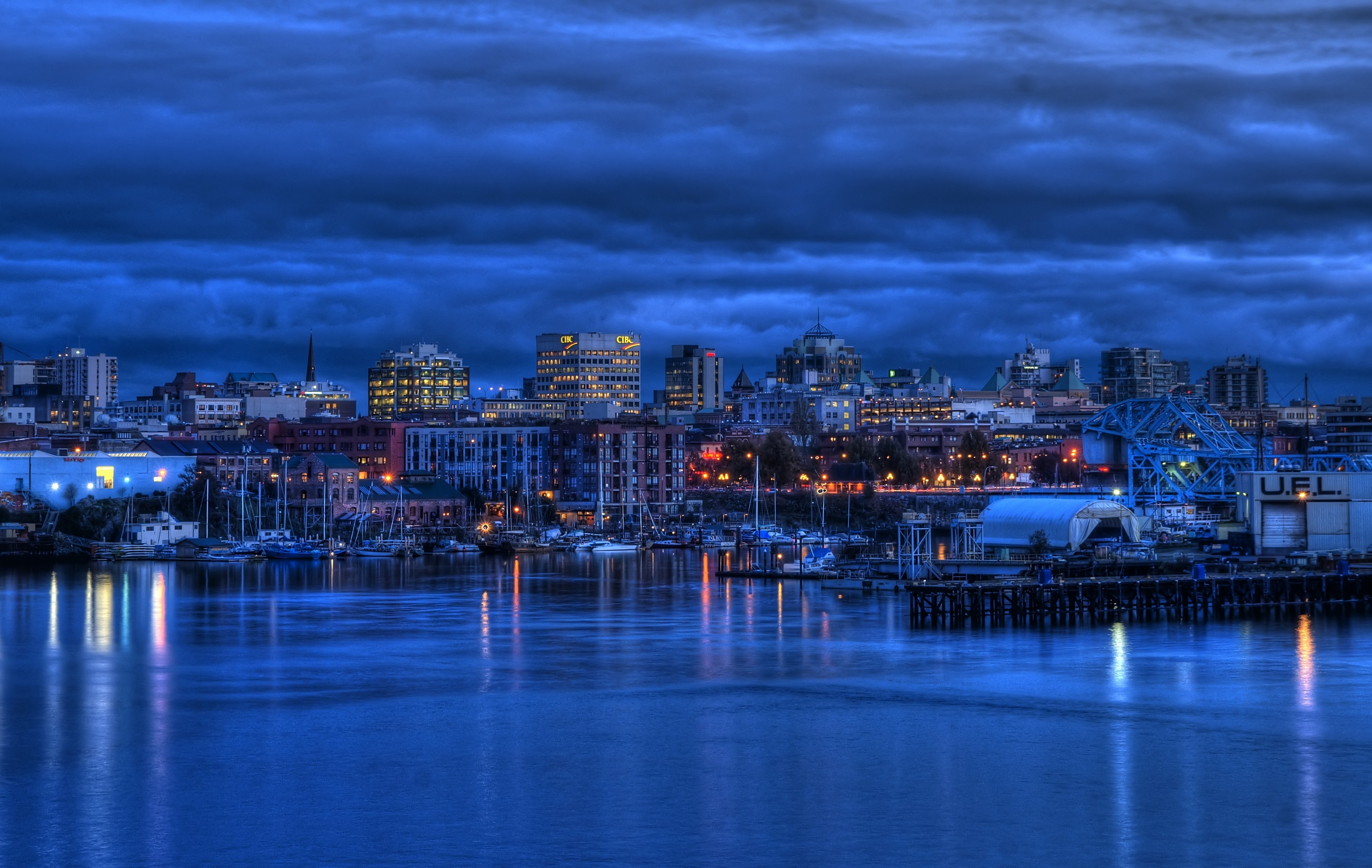 The following is the author's description of the photograph quoted directly from the photograph's Flickr page."LARGE ON BLACK (press F11 for full screen view)You've got to love the blue hour! It is always my favorite time to shoot. These are some of my favorite blue hour photos that I've taken to date.Thanks for stopping by to have a look! This will be my last post for a few days as I start my new job. "